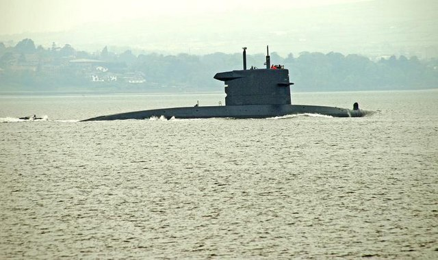 HNLMS Walrus Original description: Submarine, Belfast It was inevitable that, following a long spell of sunny weather, the departure of something as unusual as a Dutch submarine would bring an exceptionally murky day. HNLMS “Walrus” (pennant number S802) has just cleared the entrance to Belfast harbour (at a speed which, after a lengthy vigil, almost took me by surprise).